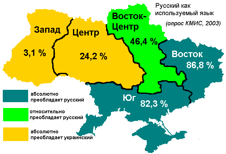 The Usage of the Russian language, a map with the Russian legenda